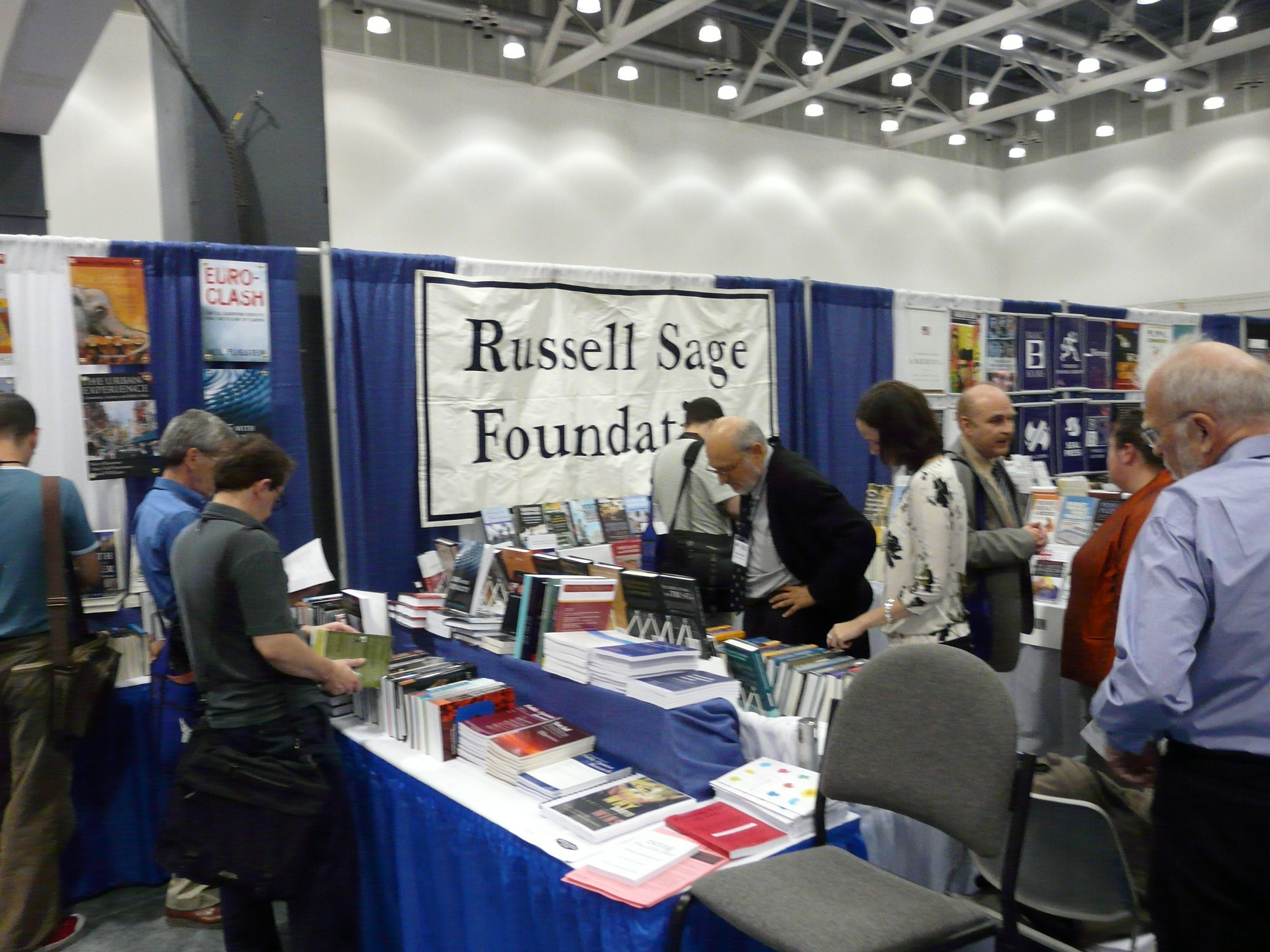 Boston. American Sociological Association conference.